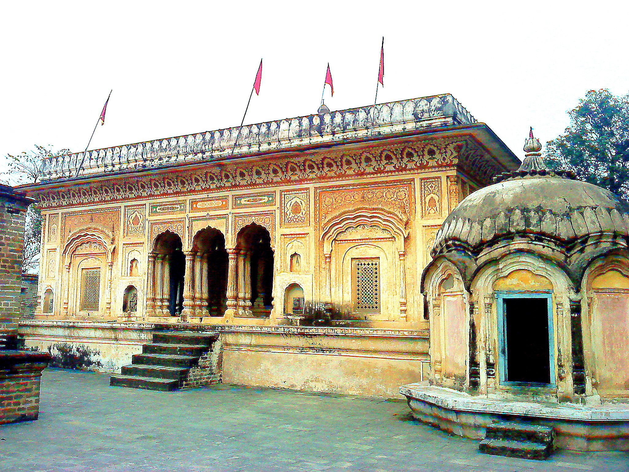 Narbadeshwar temple dedicated to Shiva- Parvati Is full of great paintings inside the walls overlooking the bank of river Beas. It is surrounded by 8ft high wall with passage all around.